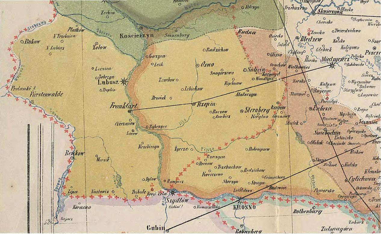 Part of a historical map of Greater Poland (Middle Ages) made by Dr. T. Szulc and included in the 4th volume of Codex diplomaticus Maioris Poloniae, covering a land given up to Silesian dukes by the Greatpoland dukes